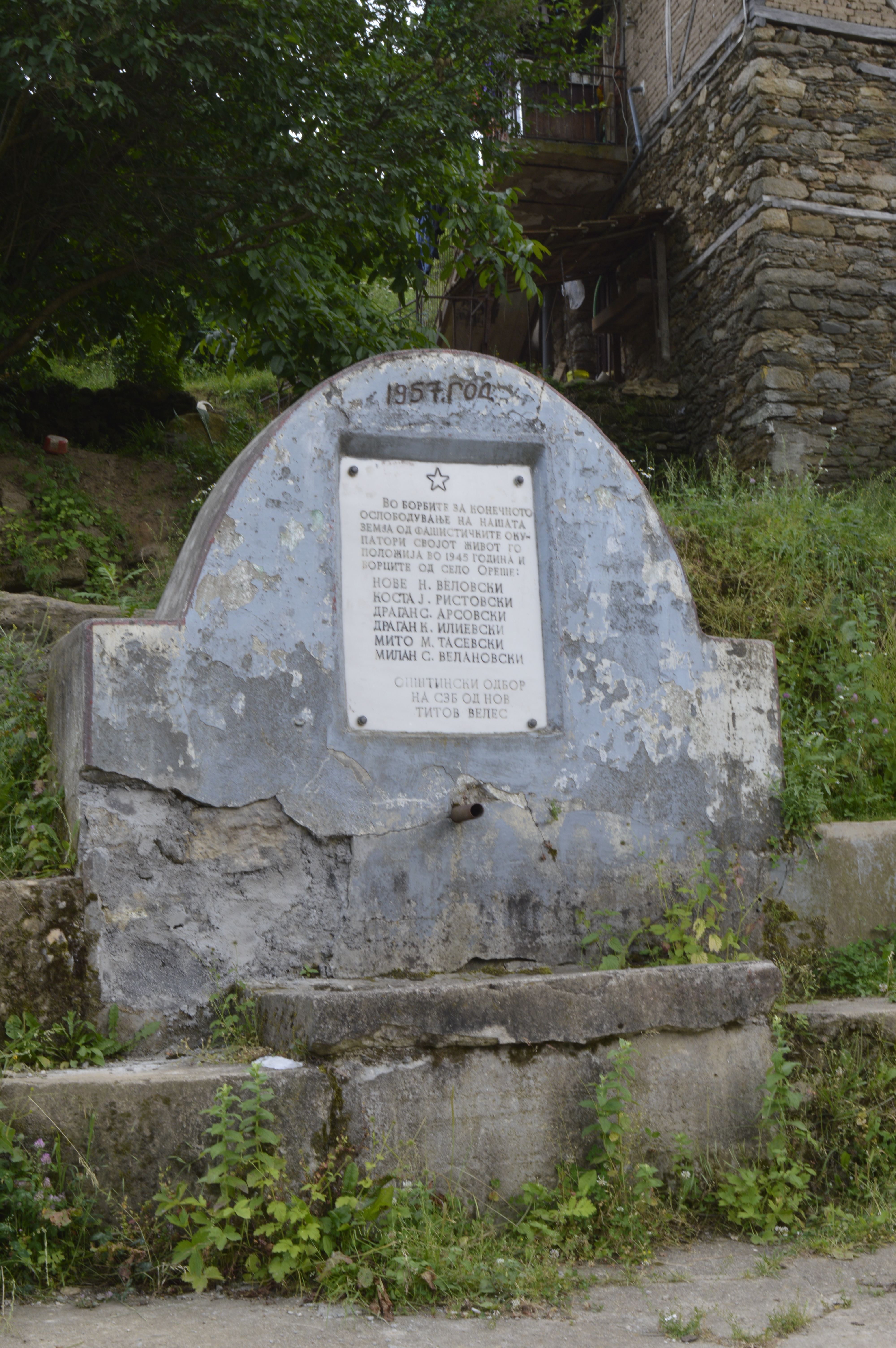 Village pump in Oreše